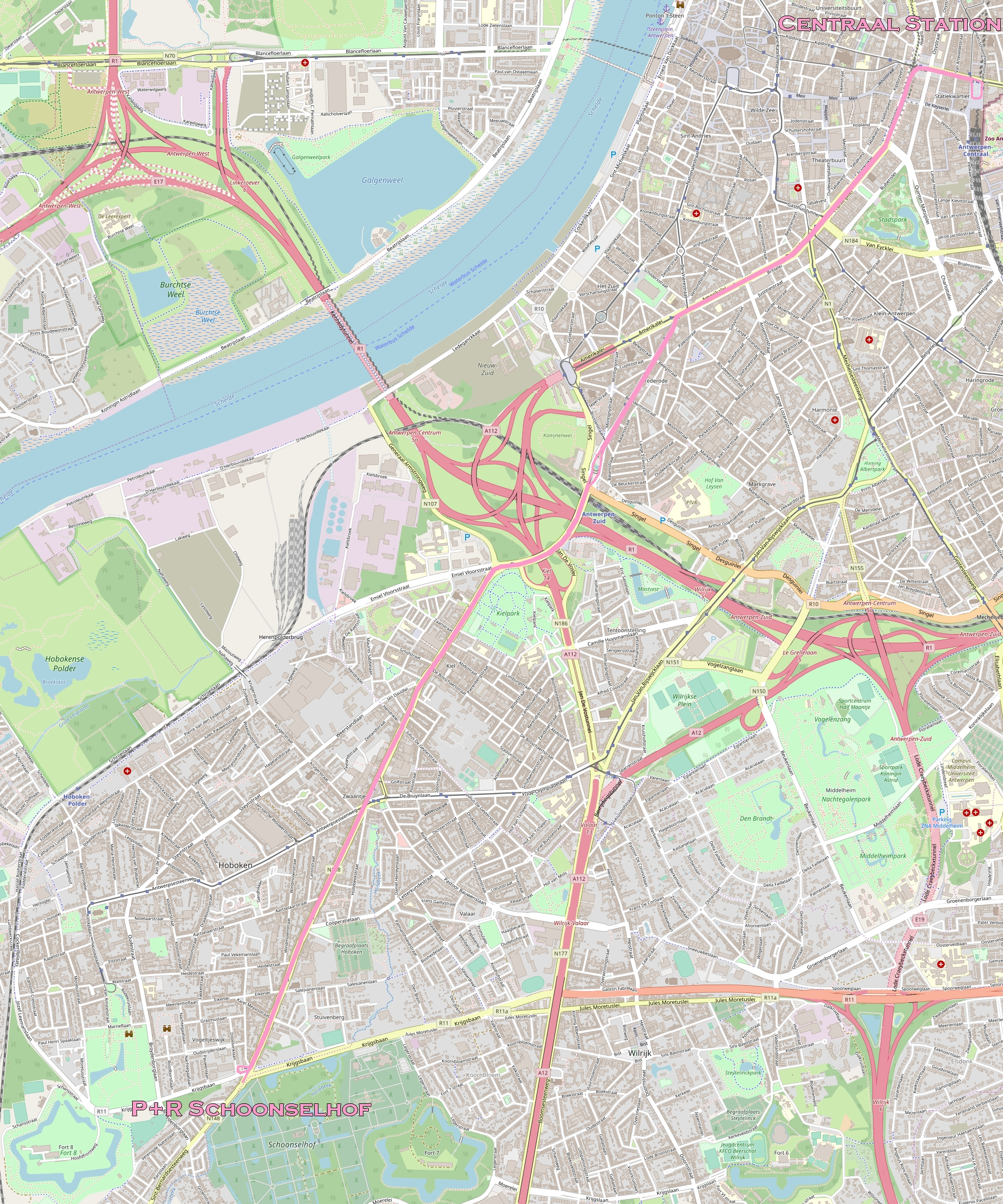 Tracé de la ligne 24 du tramway d'Anvers entre Centraal Station et P+R Schoonselhof, en usage entre le 18 avril et le 2 juin 2017 This map may be incomplete, and may contain errors. Don't rely solely on it for navigation.